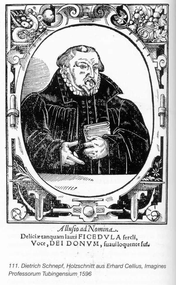 Dietrich (Theodoricus) Schnepf was a son of the Lutheran reformer, Erhard Schnepf. He married Barbara Brenz, oldest daughter of Johannes Brenz - the Reformer of Württemberg.